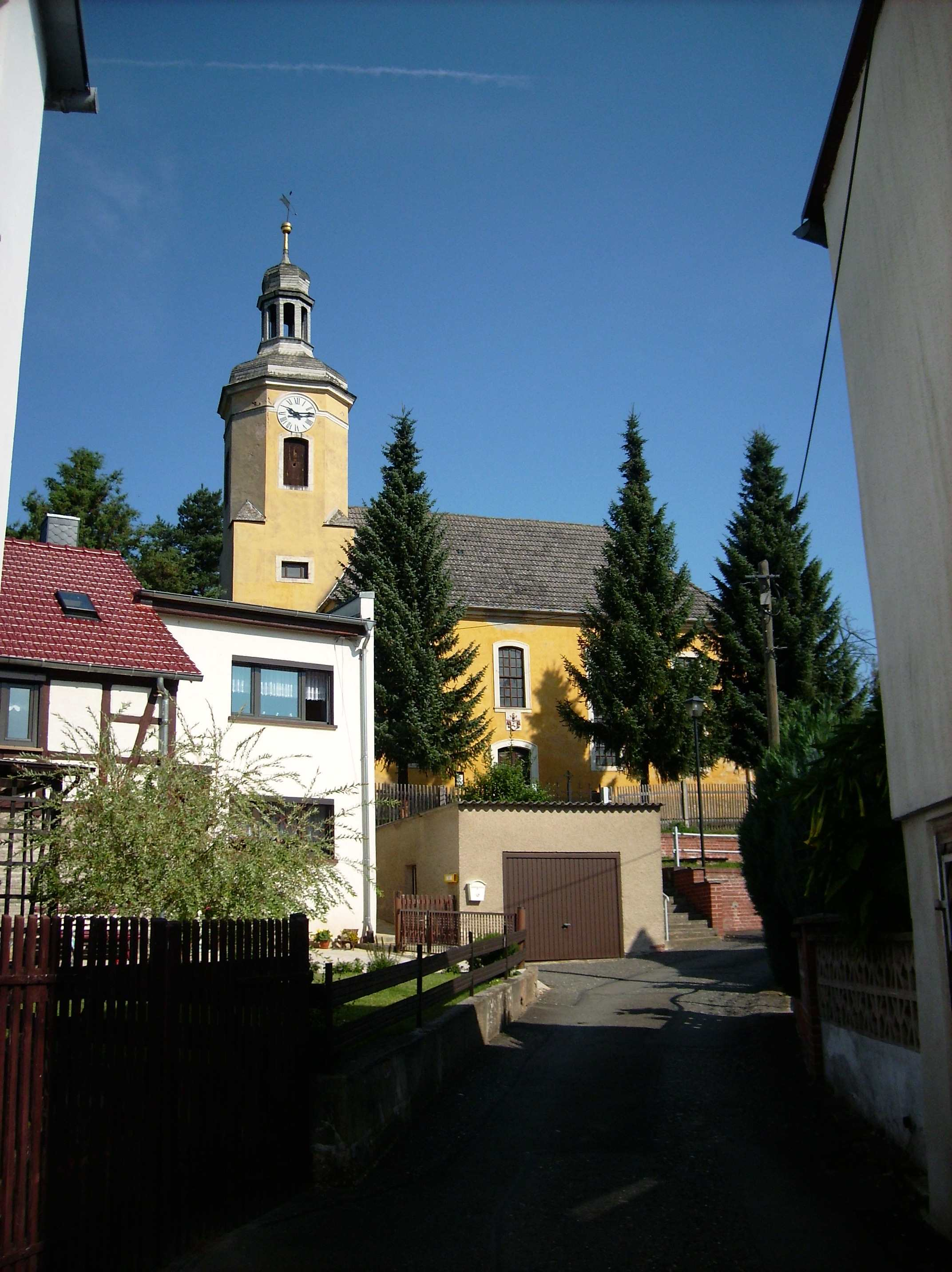 Rauda church (district of Saale-Holzland-Kreis, Thuringia)